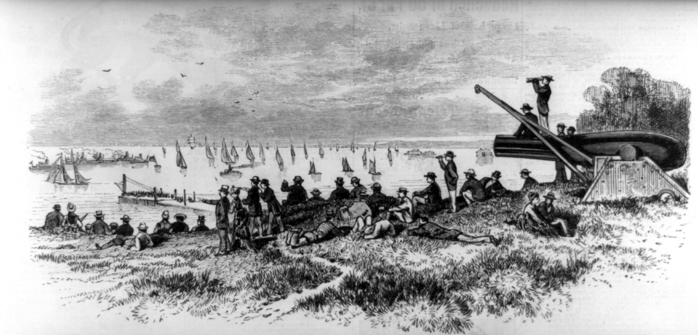 New York Harbor - Regatta of the New York Yacht Club...June 8th - The home stretch from the water batteries at Fort Wadsworth. Illus. in: Harper's Weekly, mid-to-late 19th century.